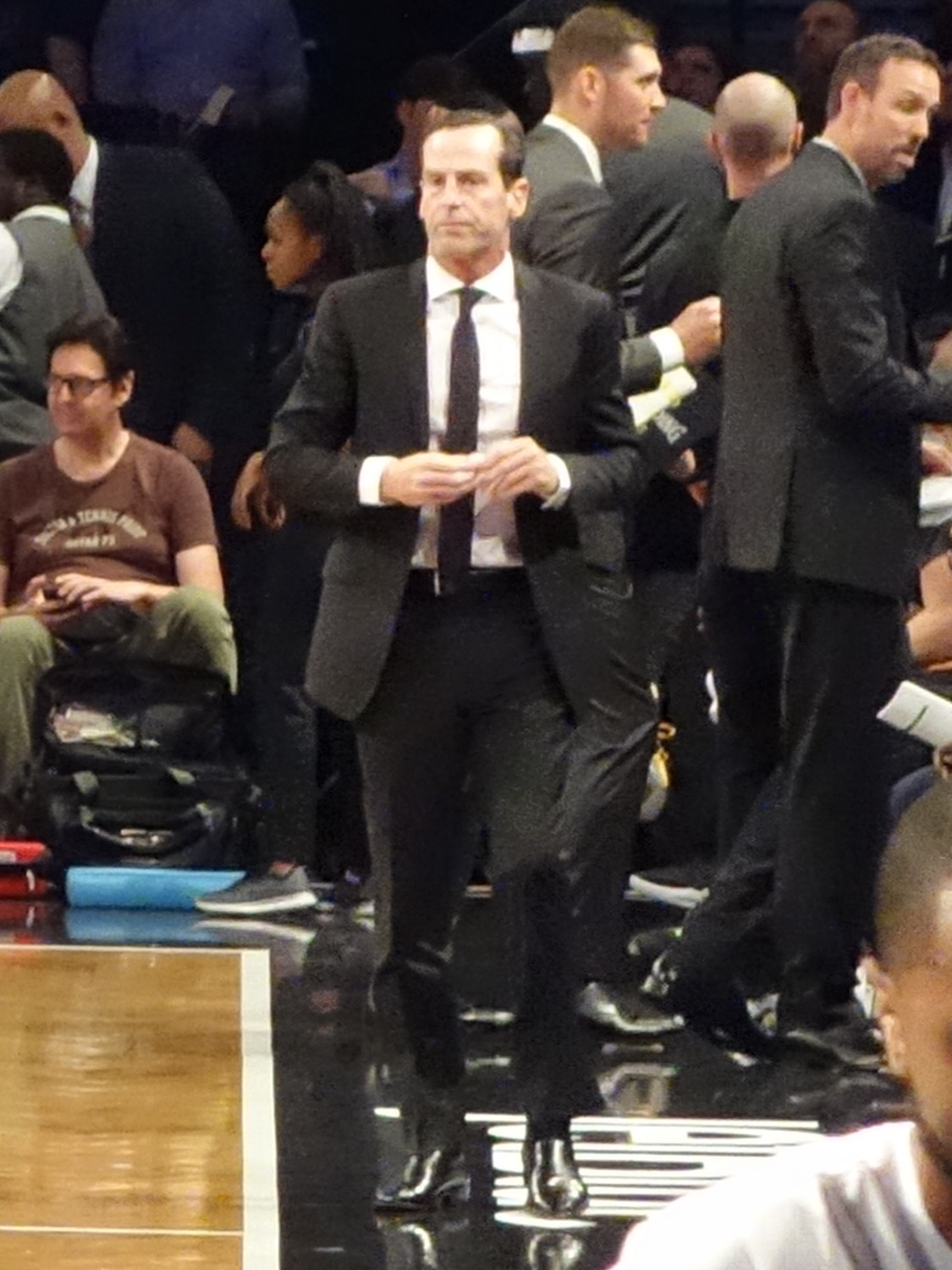 Brooklyn Nets head coach Kenny Atkinson during the first quarter of the NBA Preseason game between the Brooklyn Nets and the New York Knicks at the Barclays Center on October 3, 2018.